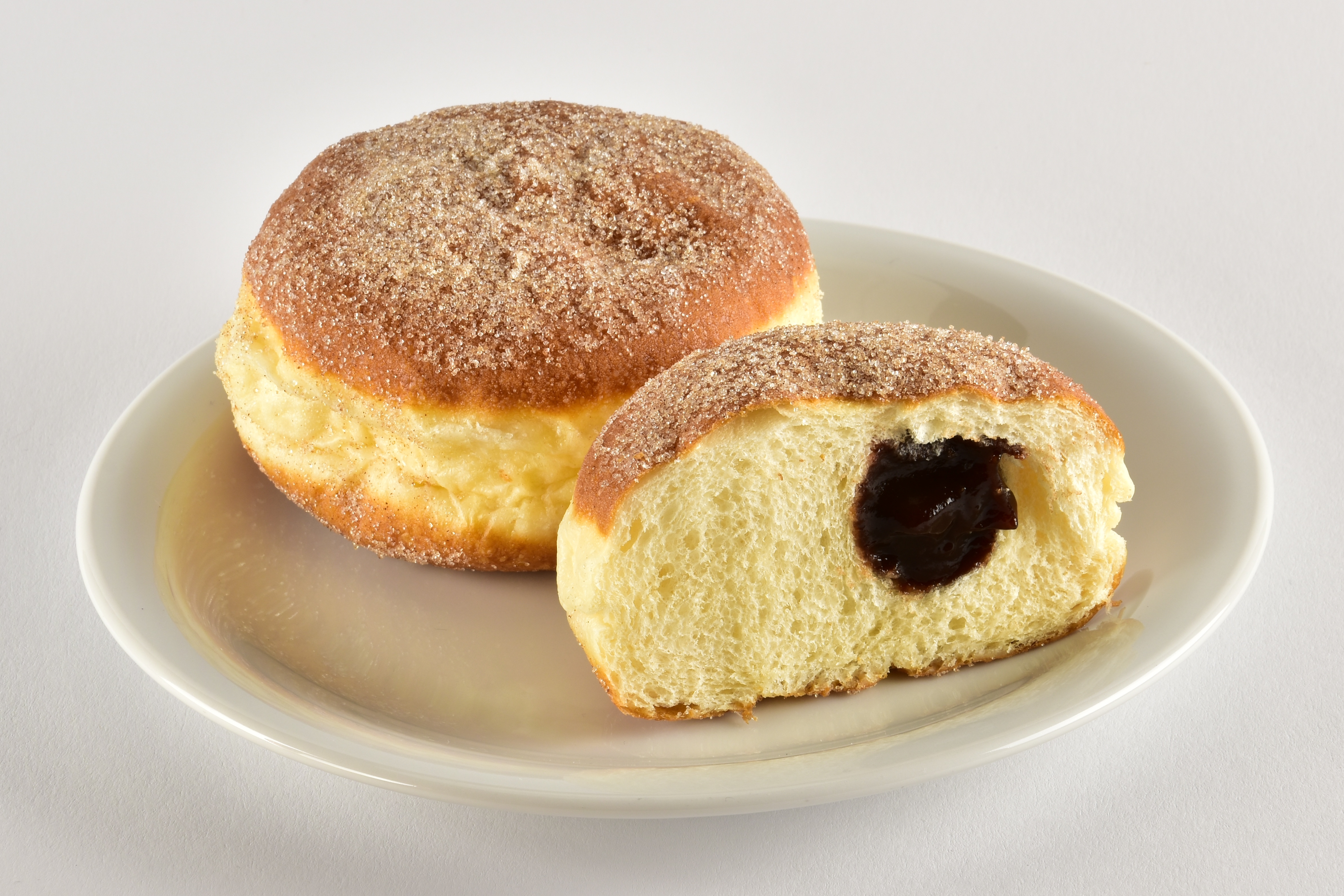 Berliner Pfannkuchen (or Berliners for short), a popular German deep fried pastry made from sweet yeast dough. These specimens are sprinkled with granulated sugar and filled with plum jam, but other toppings and fillings are common too. The Berliners in this picture were made by a Hamburg bakery.